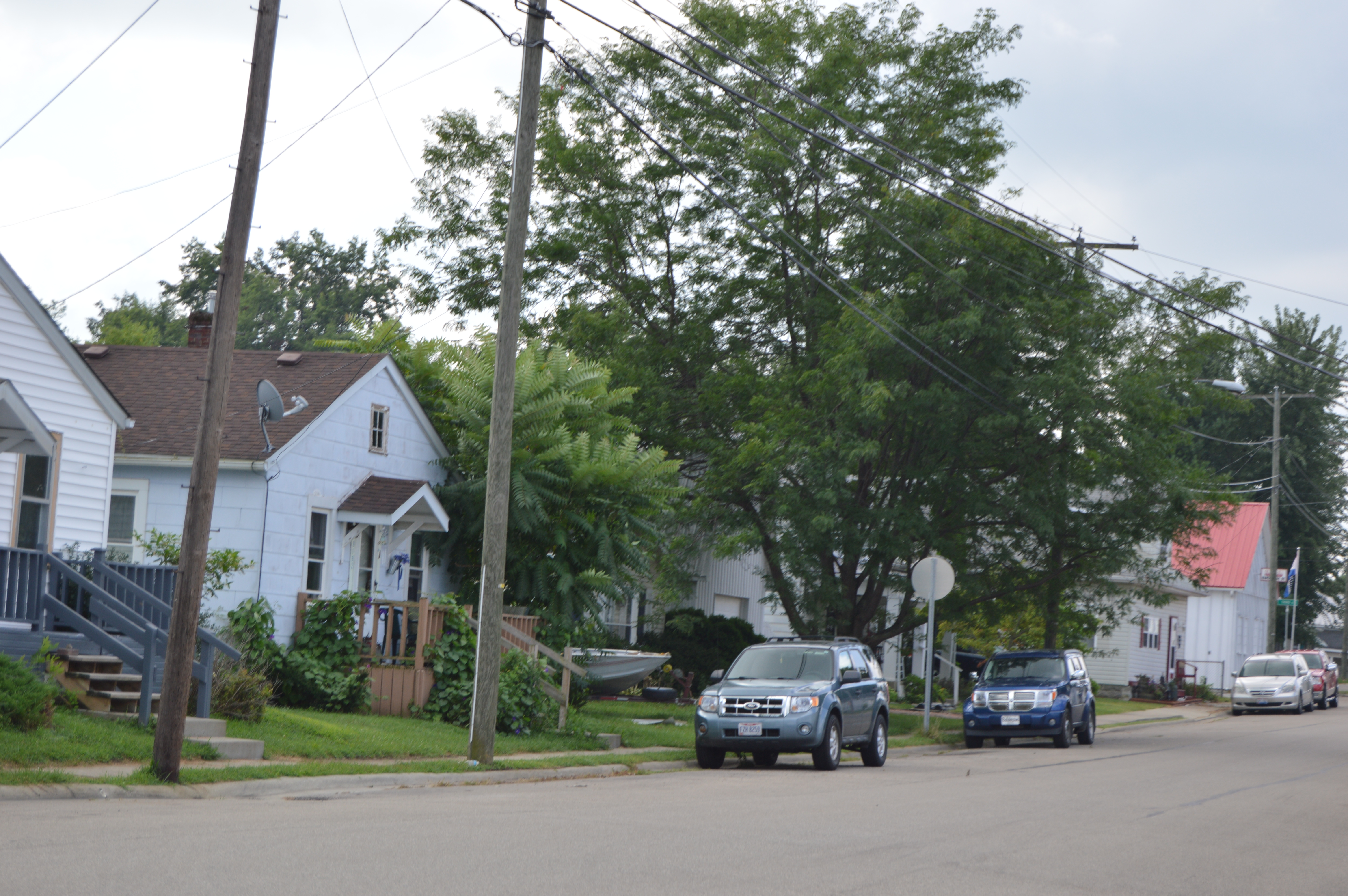 Houses on the eastern side of High Street, seen looking southeast from the Maple Street intersection, in Thurston, Ohio, United States.